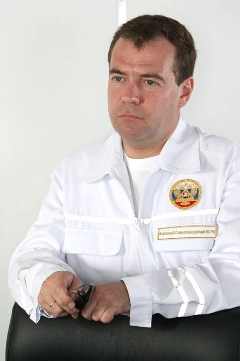 The Russian President, Supreme Commander of the Russian Armed Forces D.A. Medvedev on the teachings of the "East 2010"